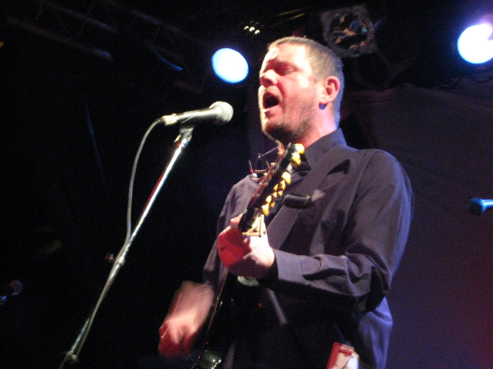 Chris Connelly live at the Double Door